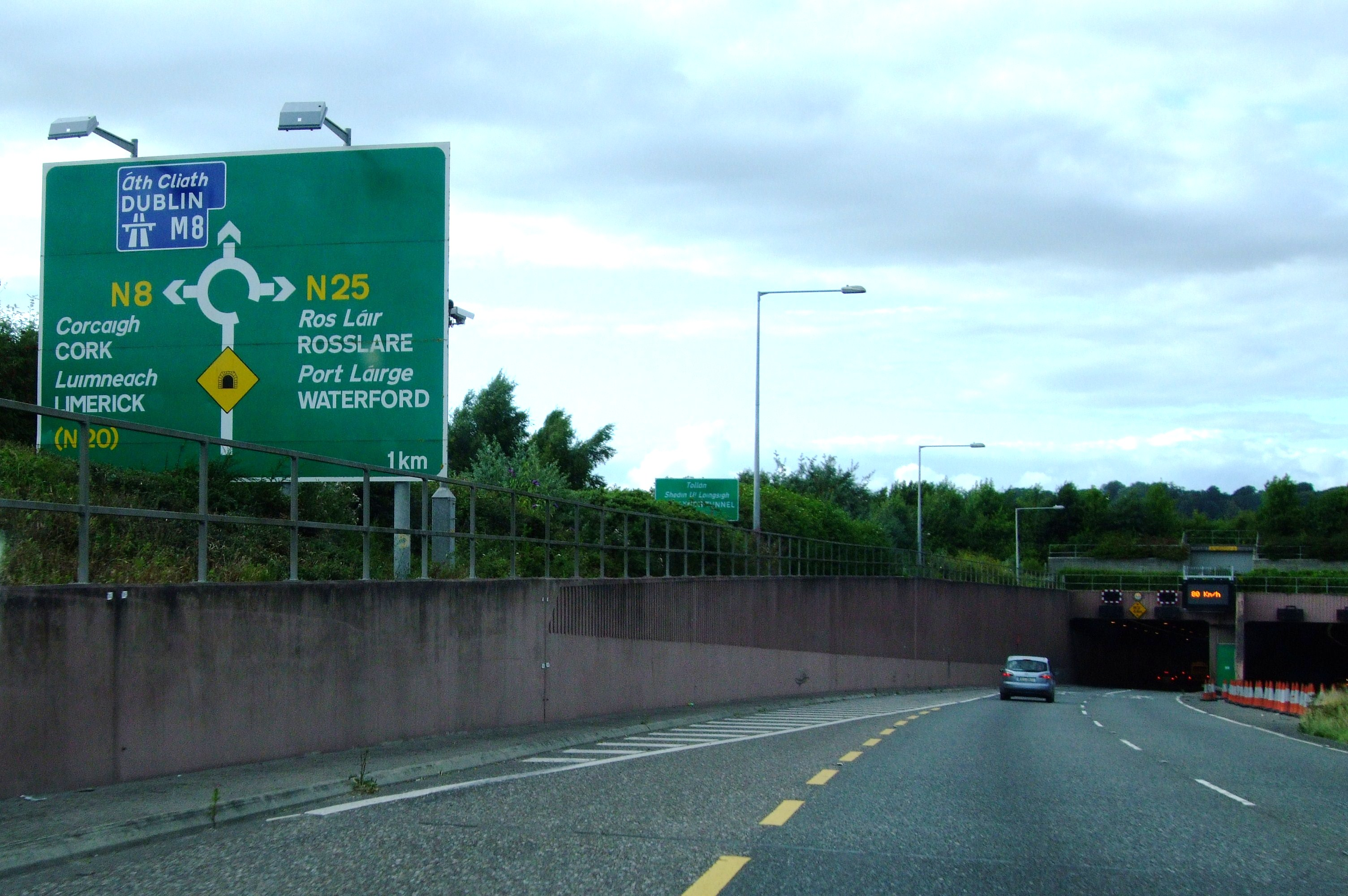 The northbound entrance to the Jack Lynch Tunnel